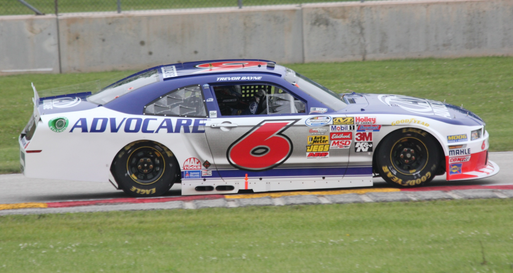 The passenger side of Trevor Bayne Nationwide car during the 2014 Gardner Denver 200 at Road America. Taken racing up the hill in turn 13.